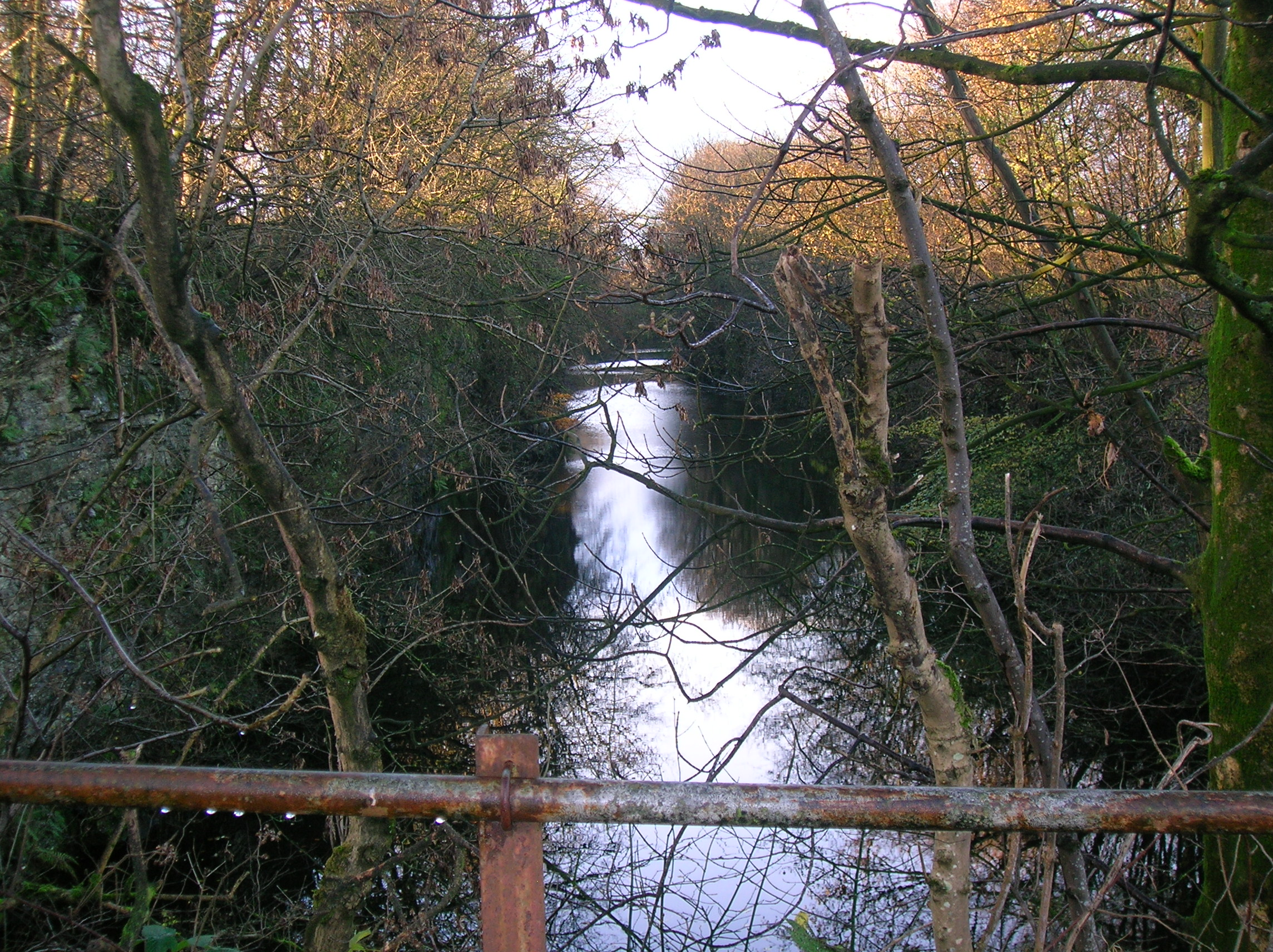 Bellcraig old limestone quarry near Barrmill, North Ayrshire, Scotland.